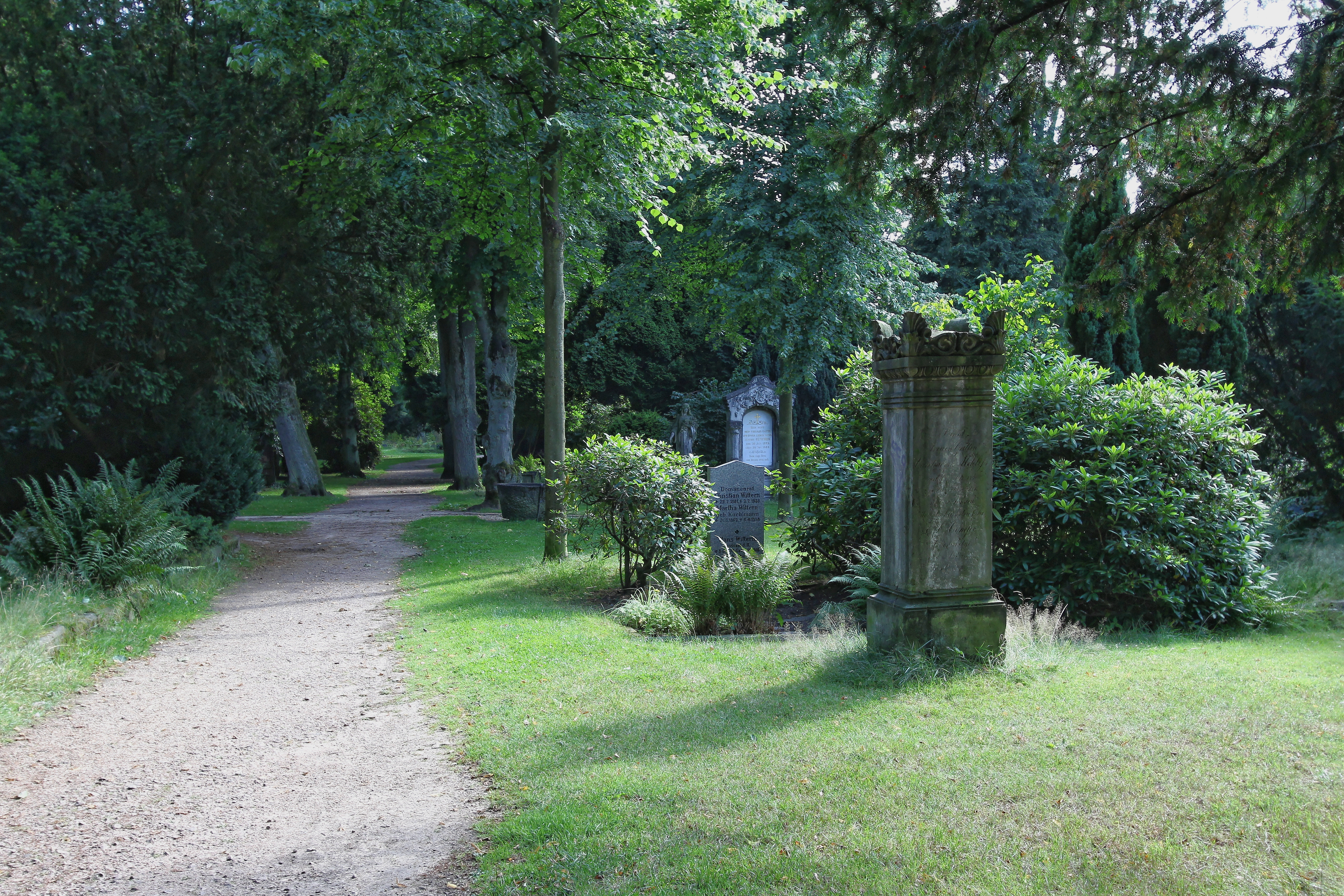 Grave on the old cemetery in Hamburg-Harburg